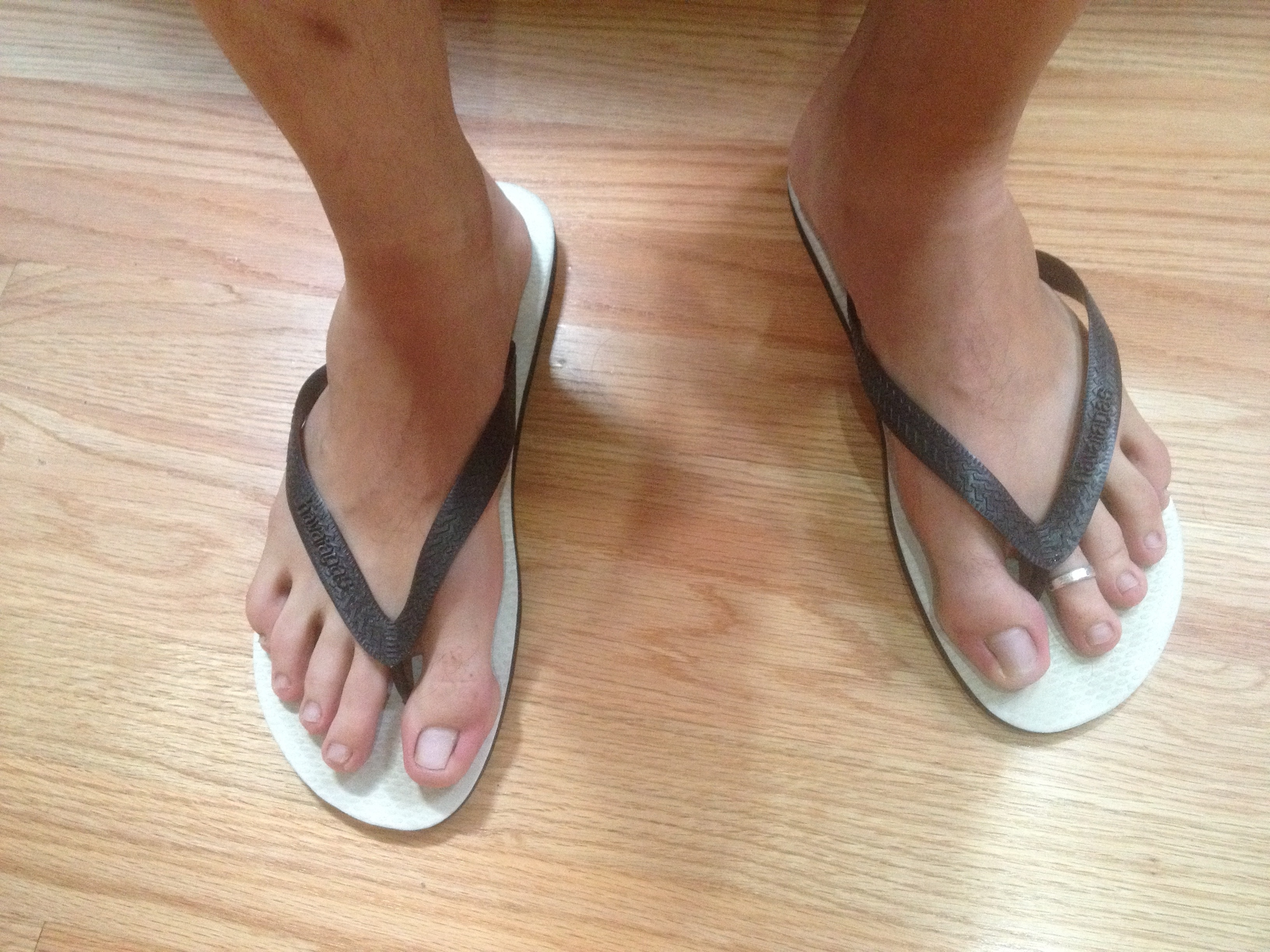 A pair of Havaianas sandals being worn.